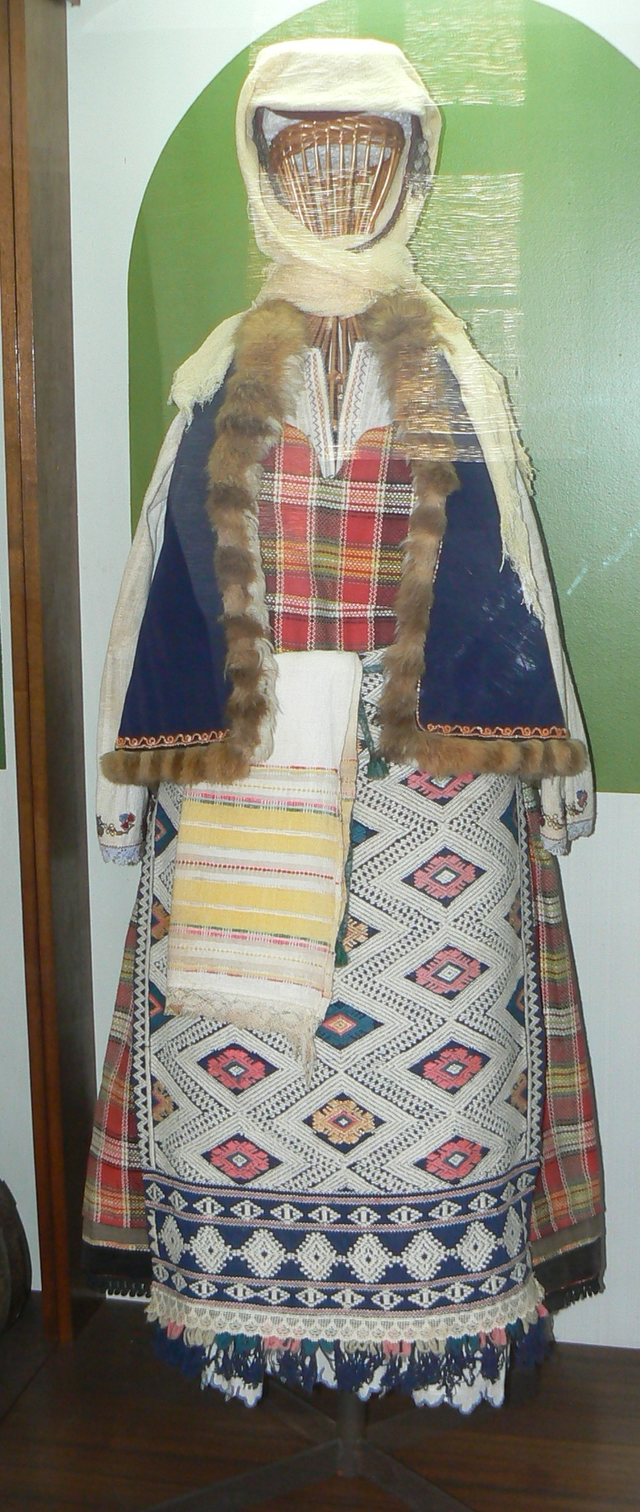 Traditional female costume from Terziysko, Burgas District, Burgas ethnographic museum